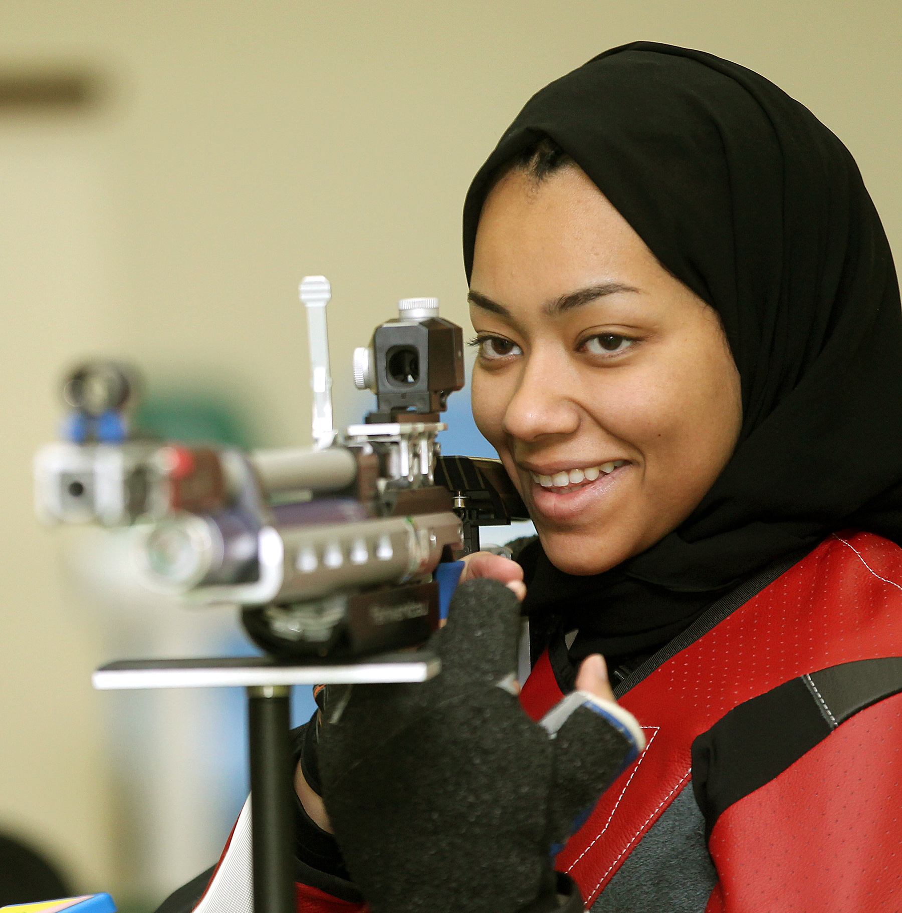 Qatari shooter Bahiya Mansour Al Hamad at the Qatar Shooting and Archery Association's range. Picture by Mohan